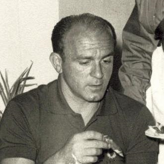 Argentine footballer Alfredo Di Stéfano while tasting the Williams & Humbert Ltd. wines, in the Don Guido room of that company.